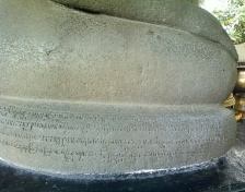 The Wurare inscription is written in Sanskrit, dated 1211 Saka (1289 CE). The inscriptions are made up of a 19 stanza poem, tells a story about a monk by the name of Arrya Bharad who was tasked with separating the island of Java into two areas, Jenggala and Panjalu, because two princes were warring over them. The ancient inscription is found at the base of Mahaksobhya Buddhist statue (locally called "Joko Dolog"), at Apsari Park, Surabaya. Right side picture.